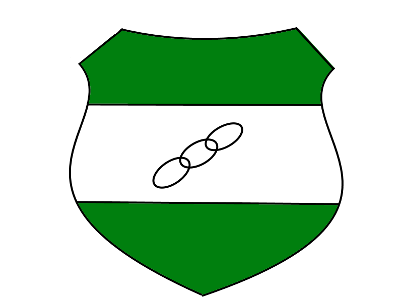 81. Infanterie Division Insignia, German Army, World War II